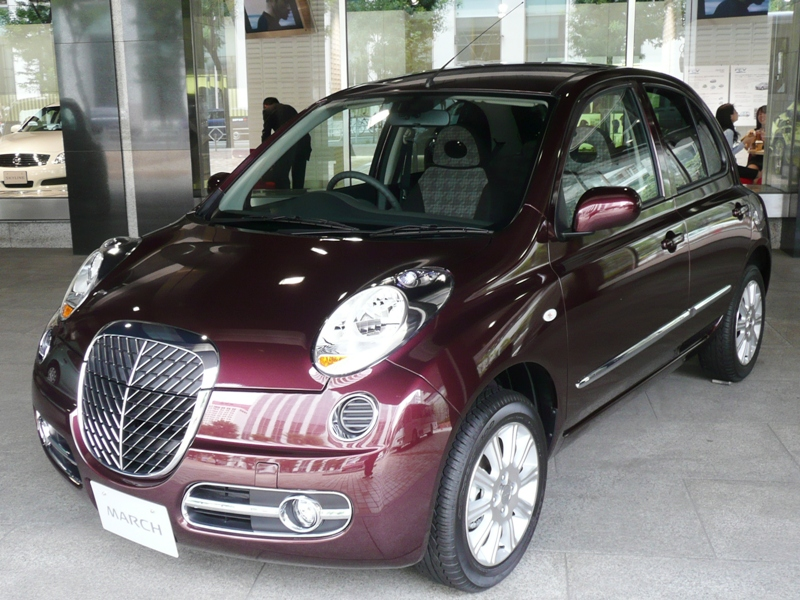 Nissan March Bolero.